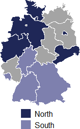 Derived from File:Blank Map-Germany-states.png; map of states with :en:German Football League teams (and their division)